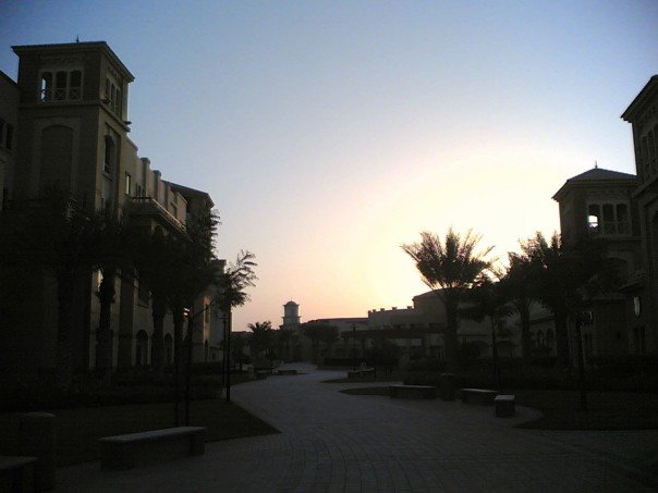 Omeir Yusuf